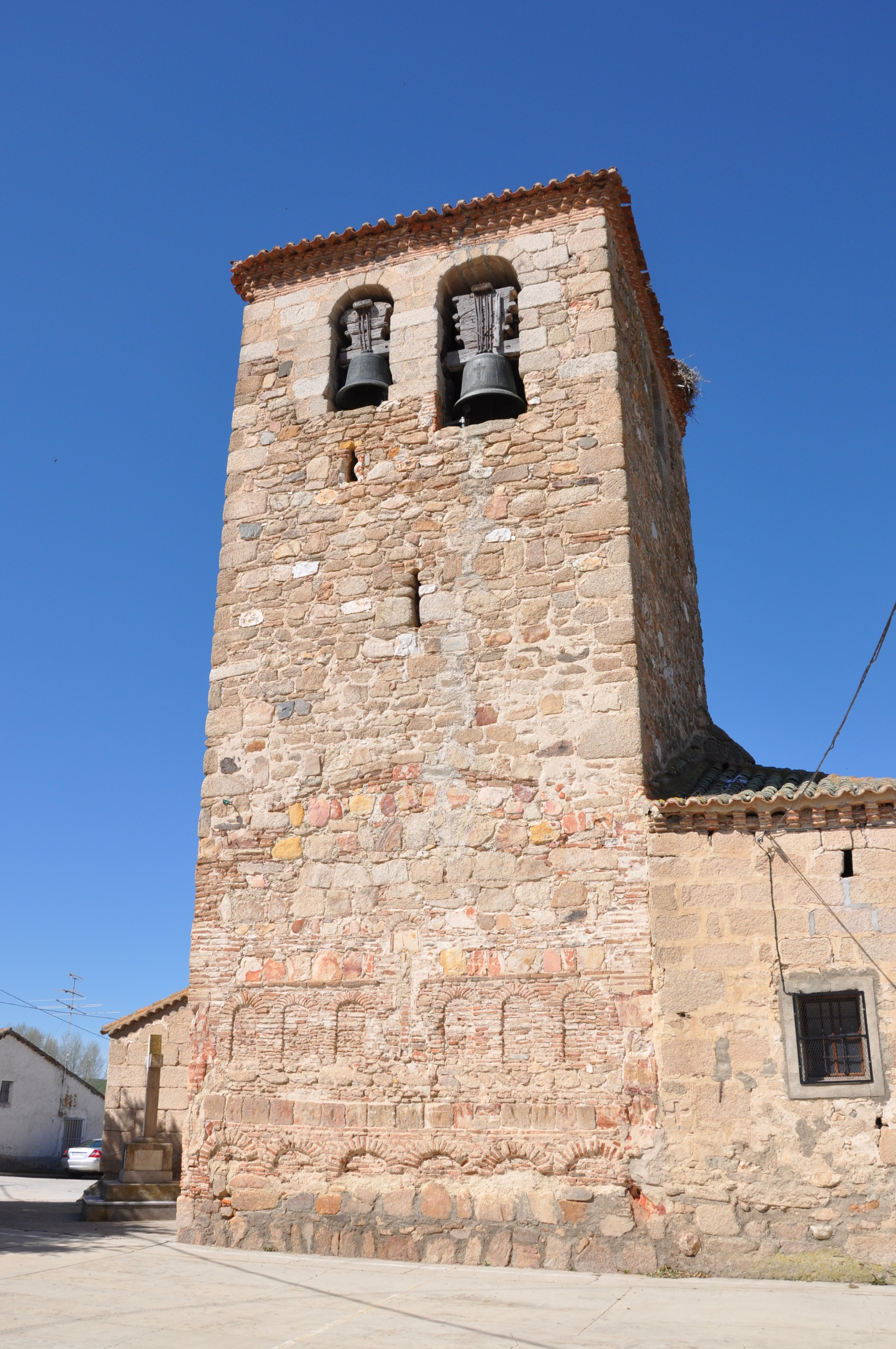 Church of Saint Thomas the Apostle in Mancera de Arriba, Avila, Spain